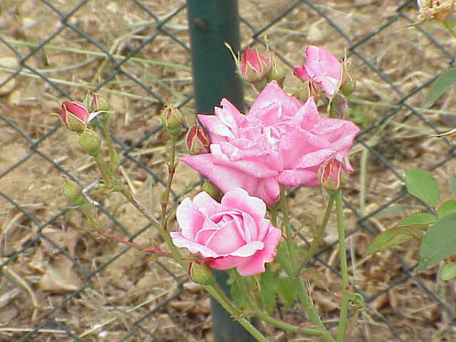 'Species: Rosa chinensis 'Old Blush Family: Rosaceae Image No. 1